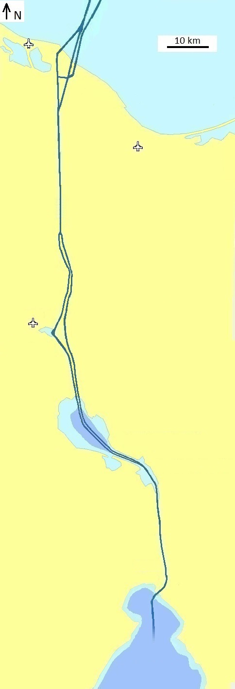 Suez Canal